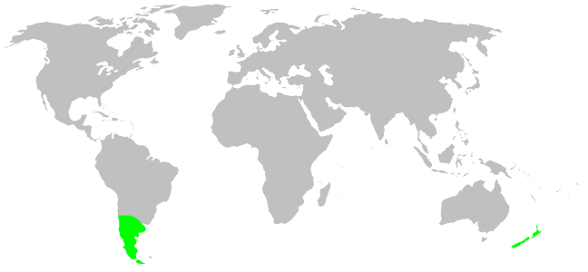 Mecysmaucheniidae habitat distribution, drawn after Platnick: World Spider Catalog 7.0. This is not a precise rendering of the distribution! If you have better information, please replace this map, or send me the info, and i will redraw it.